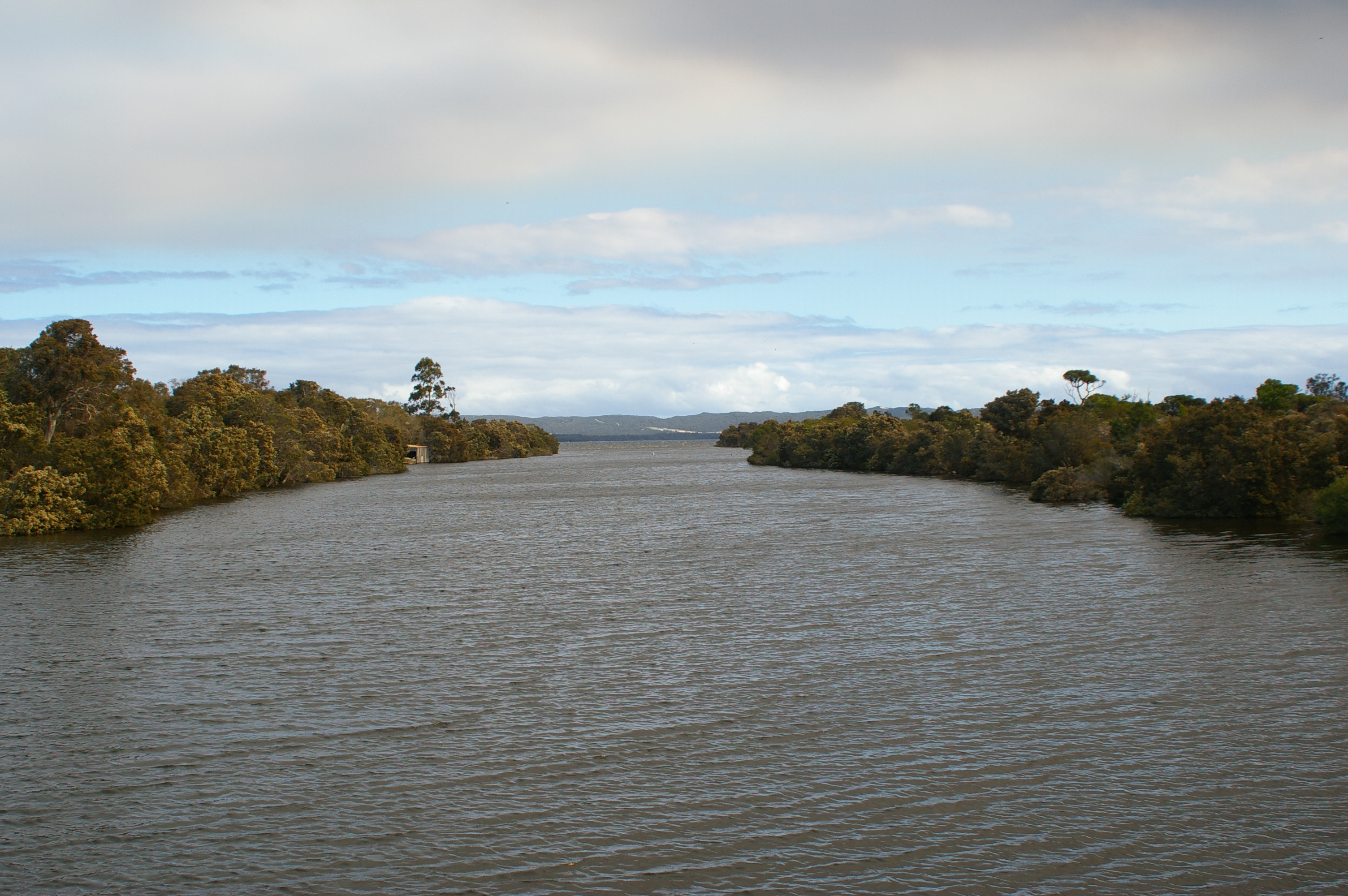 Hay River with Wilson Inlet in the background